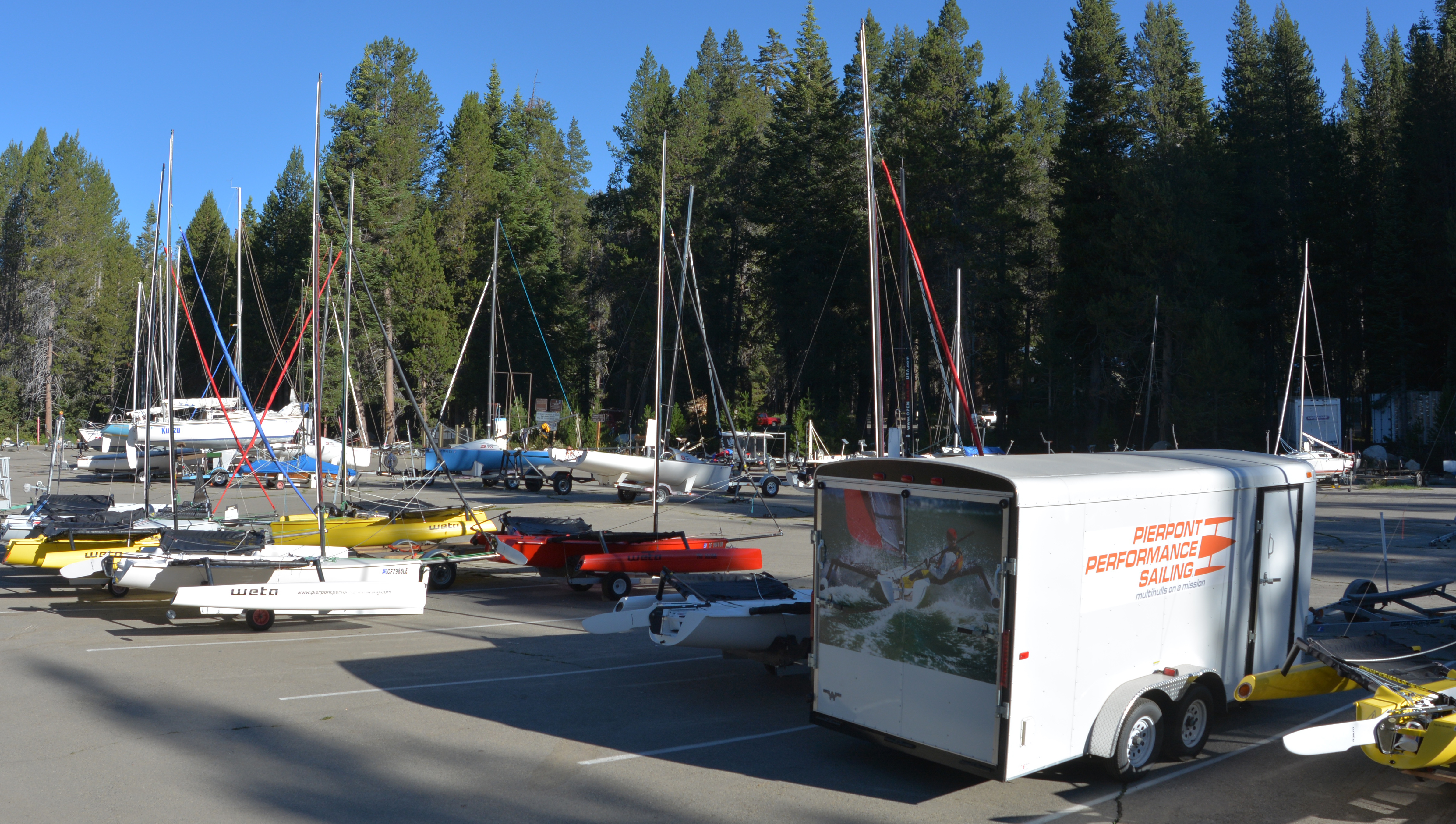 Team weta photo D Ramey Logan